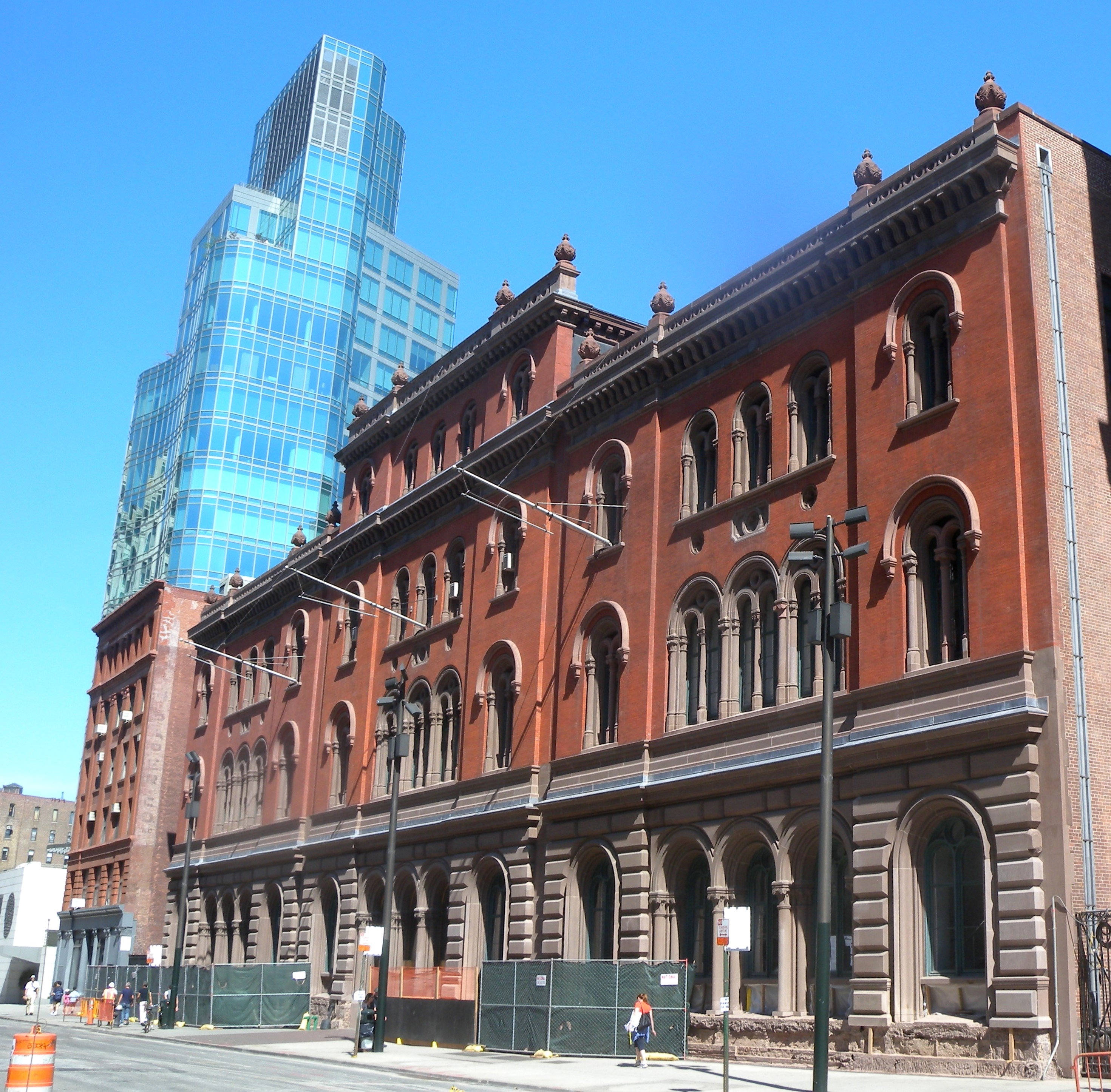 Looking northeast at the library on a sunny early afternoon.